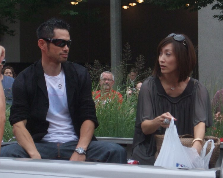 Ichiro Suzuki and his wife Yumiko at MLB All-Star Parade.